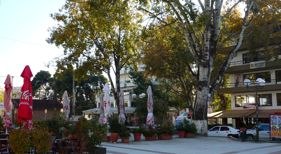 The picture depicts the center of Gerakas.